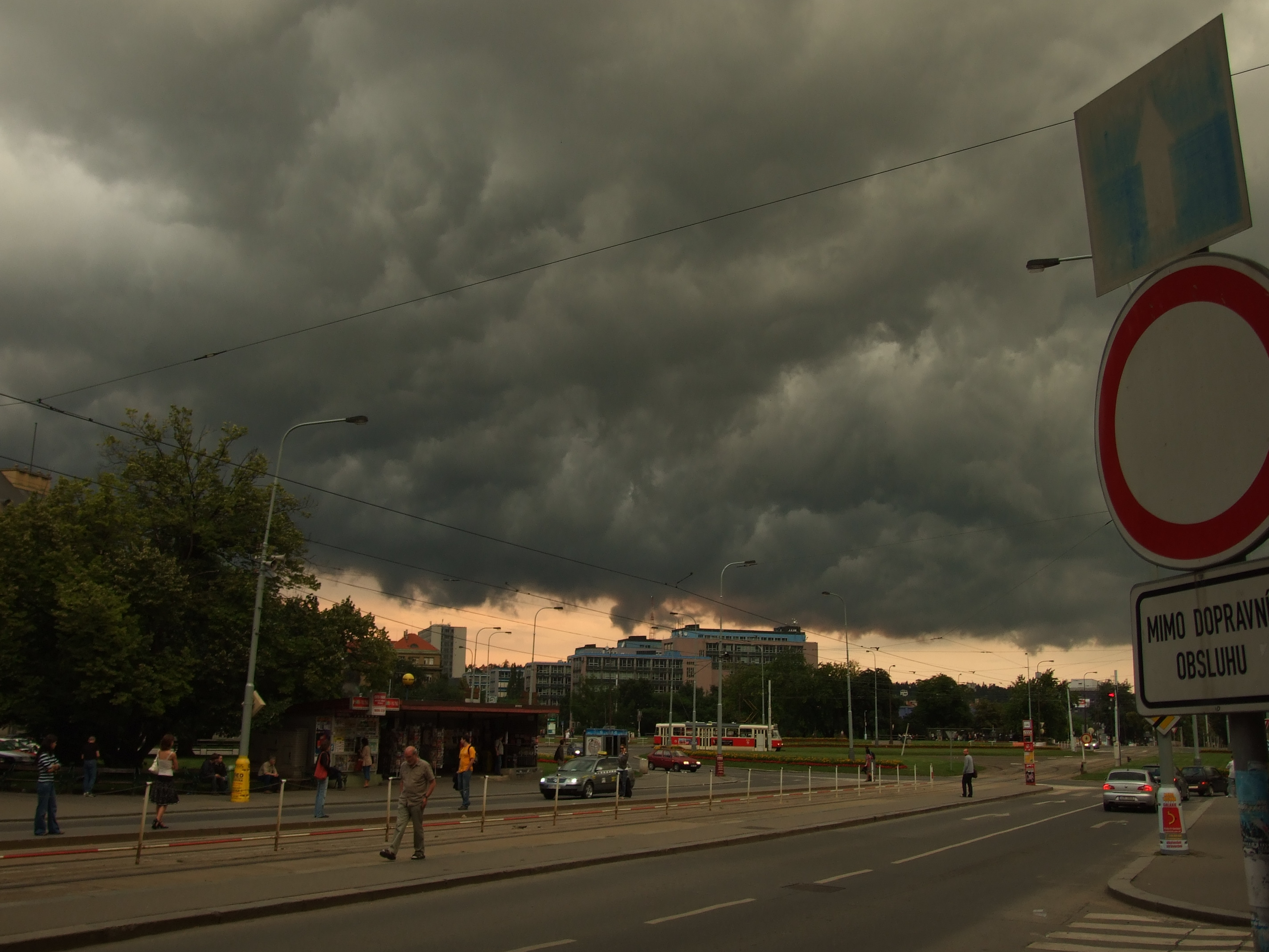 Storm cloud in Prague-Dejvice. This strorm and many similar caused flooding in northern Moravia and southern Bohemia in early summer 2009. Prague, CZ